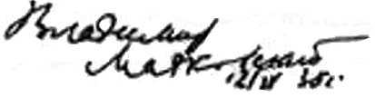 Mayakovsky Signature 12 April 1930